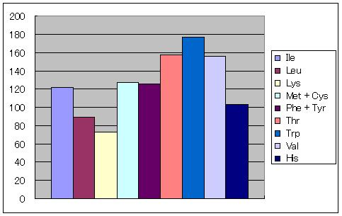 Amino Acid Score of Sweet Potato